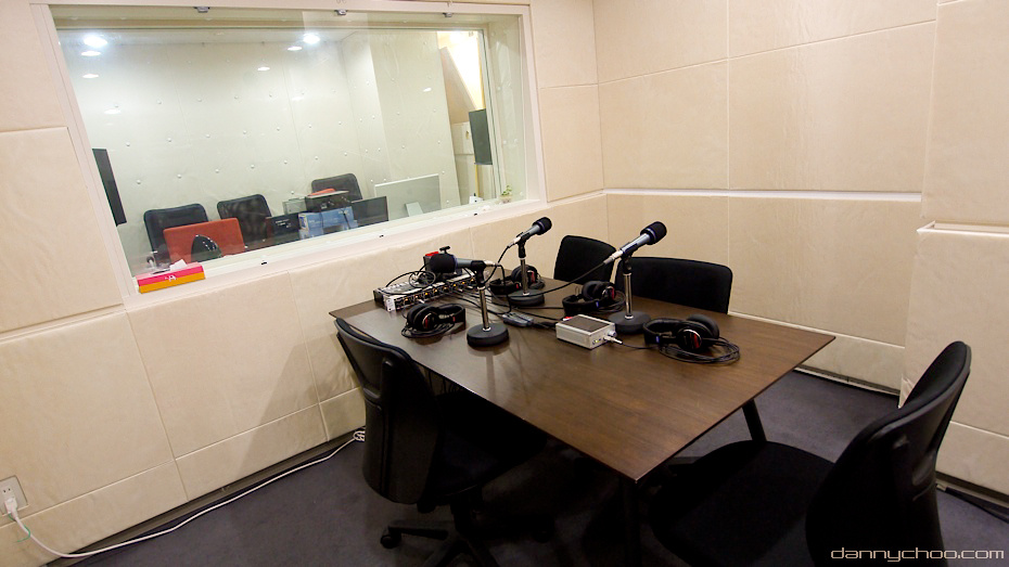 Radio studio (The Headquarter of Hibiki Inc.)